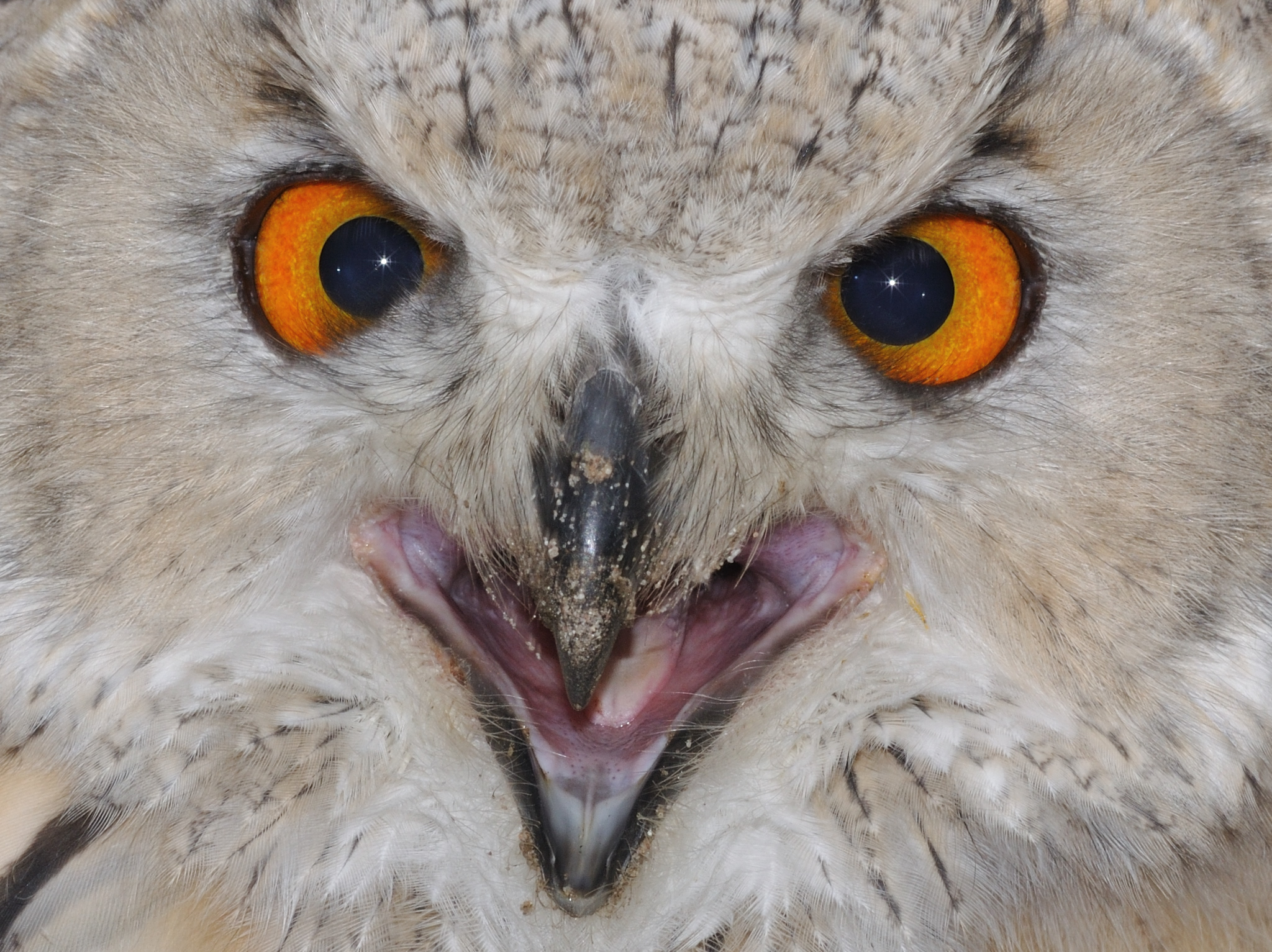 Siberian Eagle-owl (Bubo bubo sibiricus) in the falconry Falkenhof Feldberg, Germany.